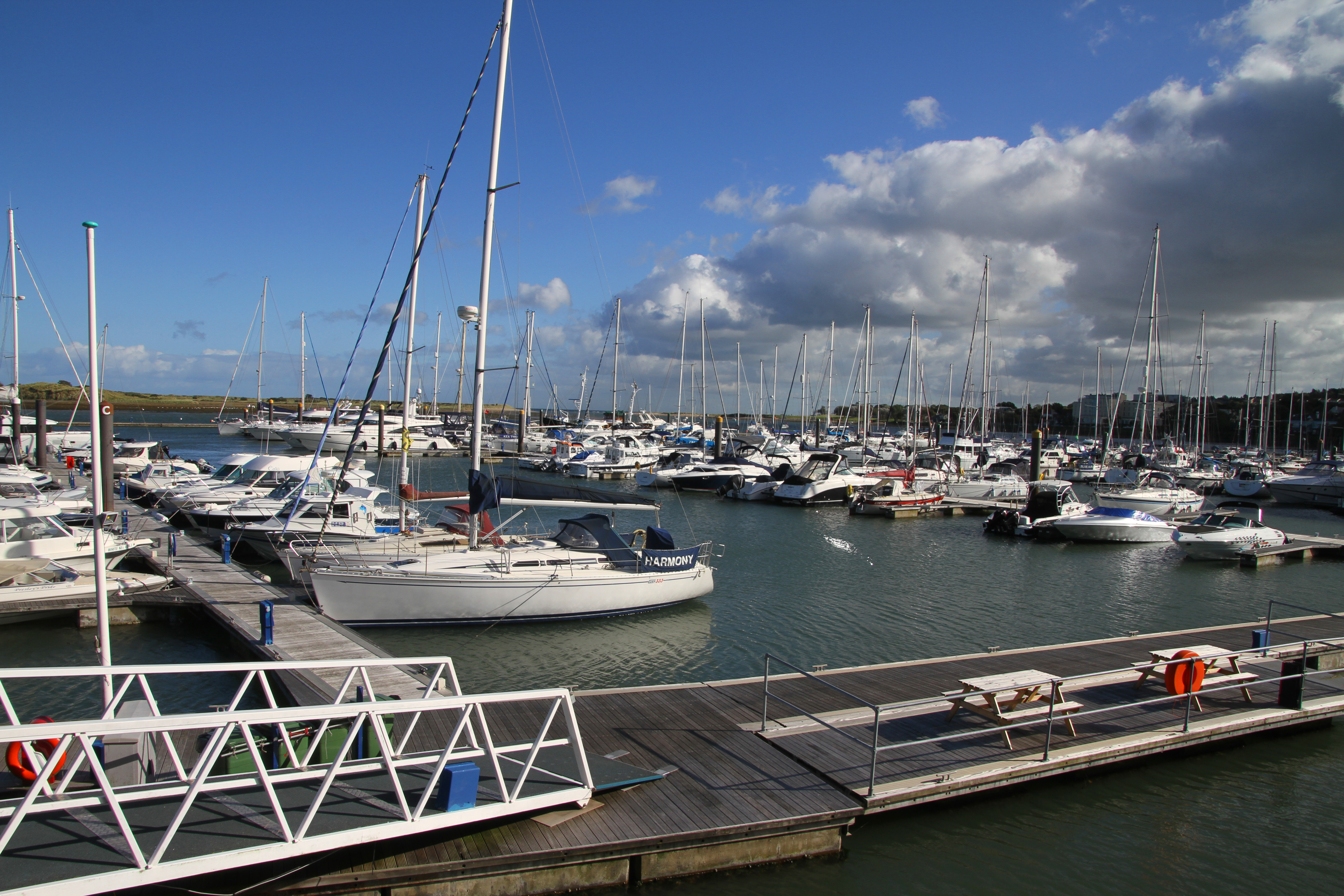 Malahide, Ireland